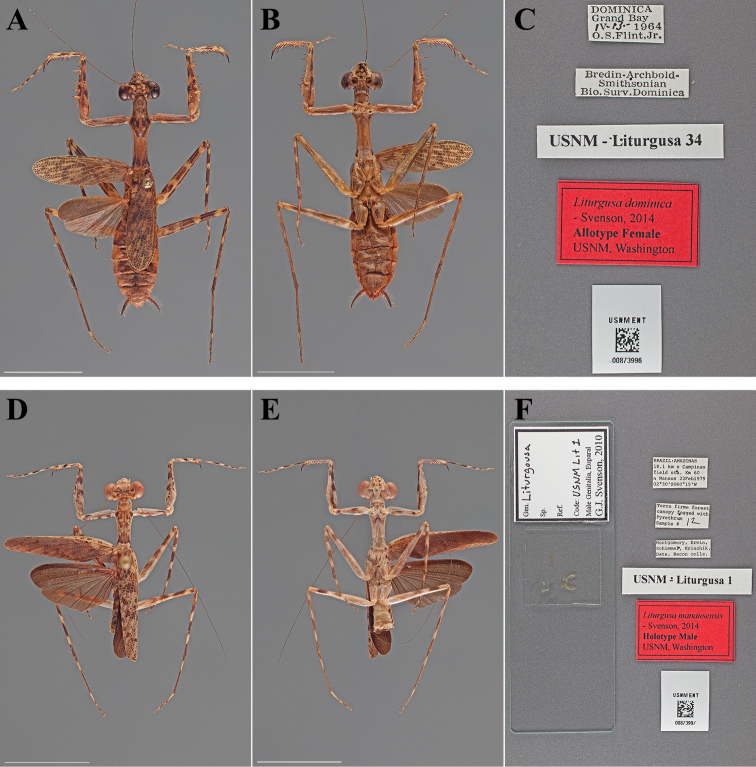 Types (scale bars = 1 cm). Liturgusa dominica Svenson, 2014 allotype female (USNM ENT 00873996): A dorsal habitus B ventral habitus C labels. Liturgusa manausensis Svenson, 2014 holotype male (USNM ENT 00873997): D dorsal habitus E ventral habitus F labels.